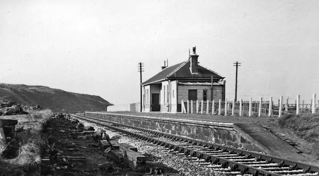 Buckpool Station (remains). View westward, towards Elgin; ex-Great North of Scotland line, Cairnie Junction via coast to Elgin. This station was closed on 7/3/60, but the line remained fully open until 6/5/68. (The sea is just to the right).